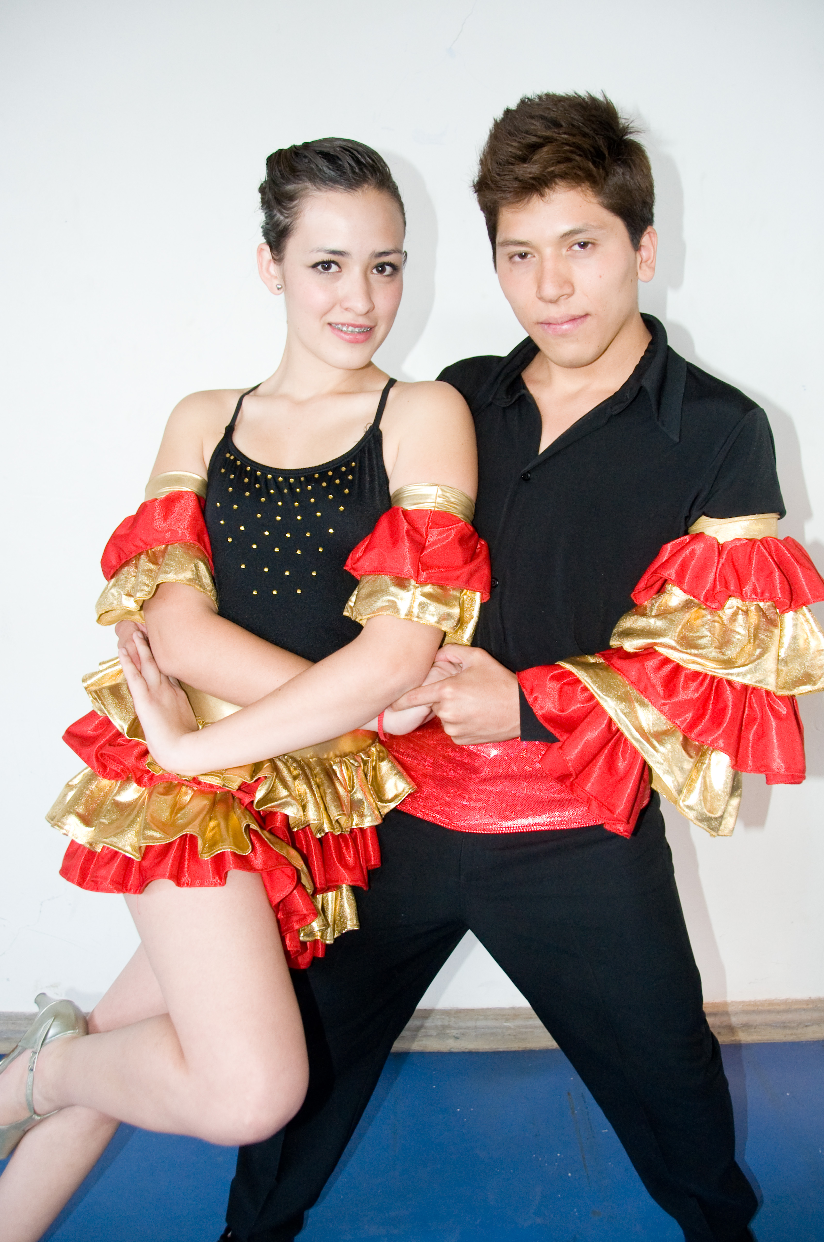 Mambo dancers of the representative group at ITESM, CCM